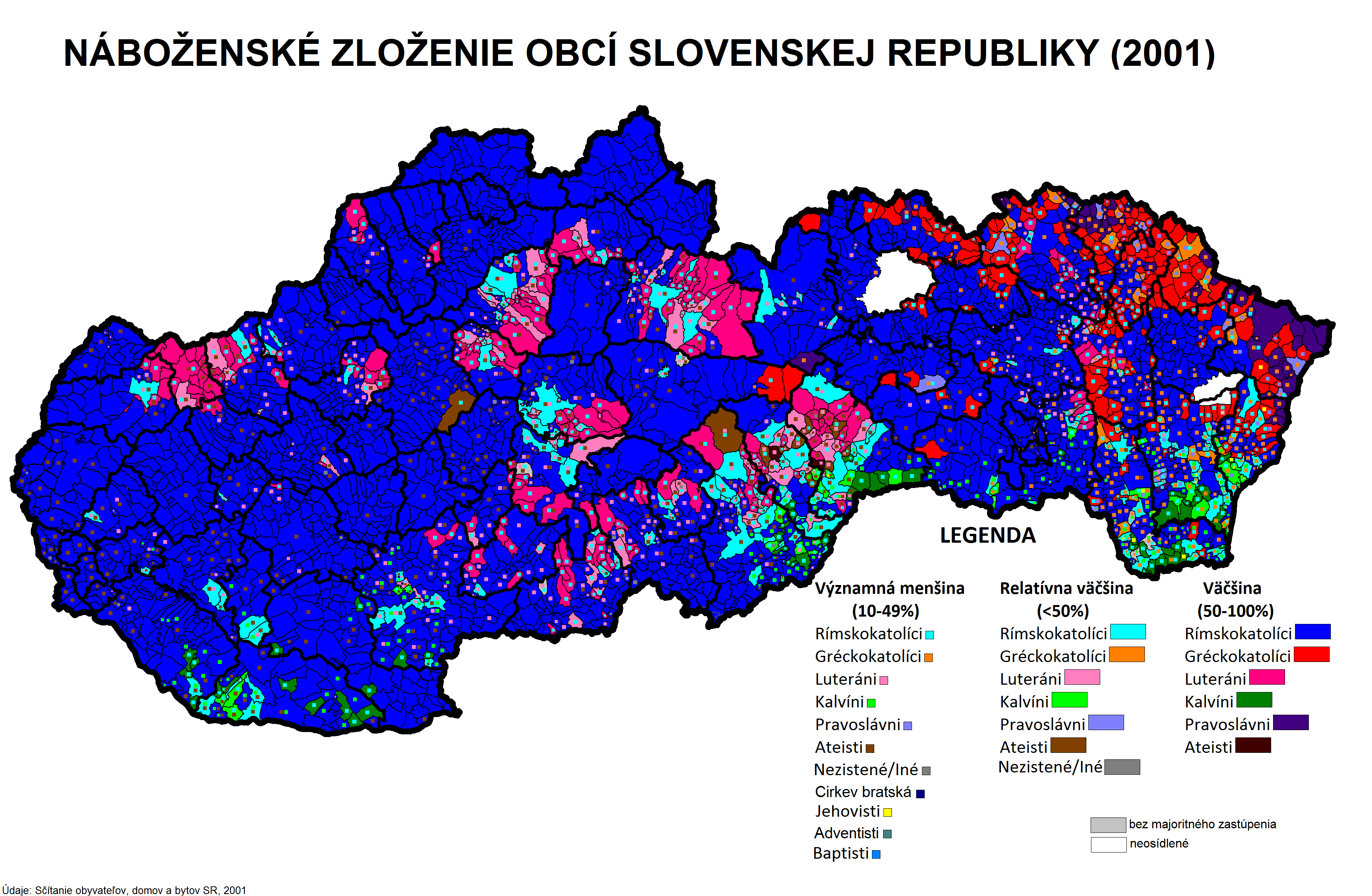 Religious composition of municipalities in the Slovakia in 2001.